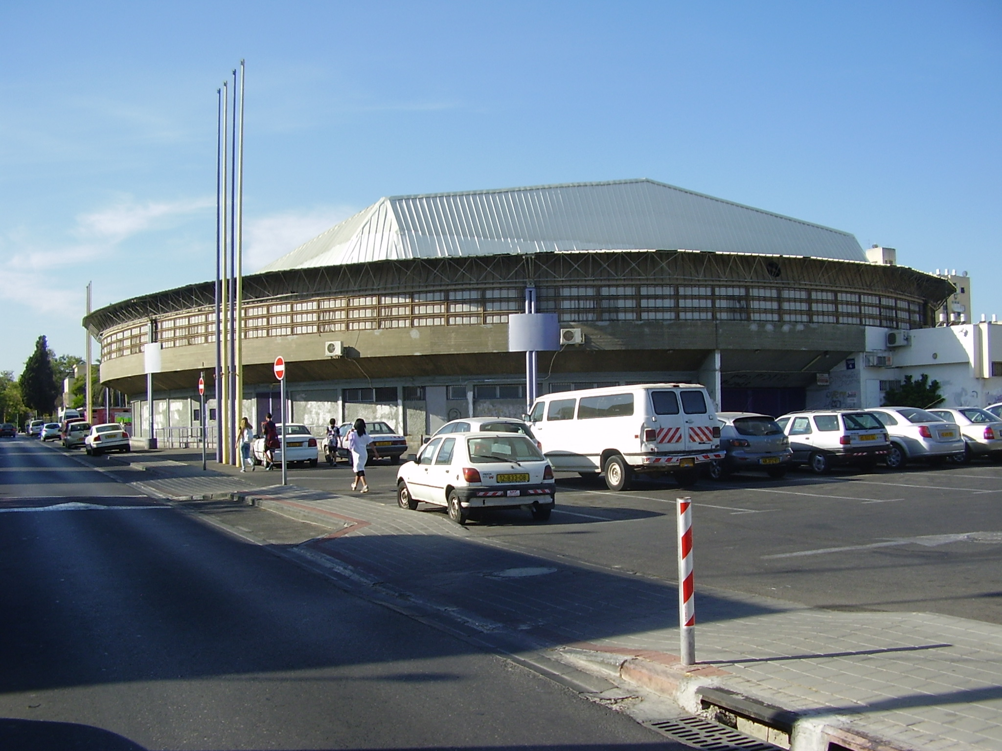 holon tin stadium